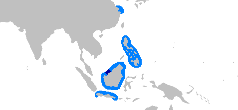 Distribution map for Carcharhinus borneensis